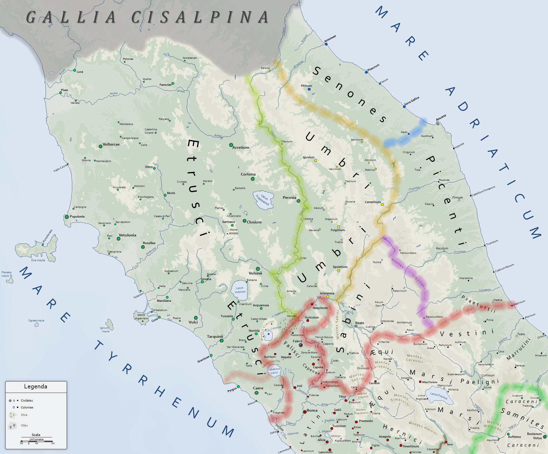 See Conquête romaine de l'Étrurie#Déclenchement de la guerre for the full legend/caption of the map.